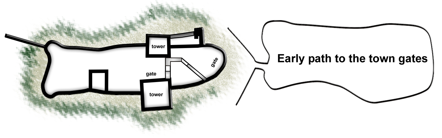 An English version of the early Visko town map by user Mhare